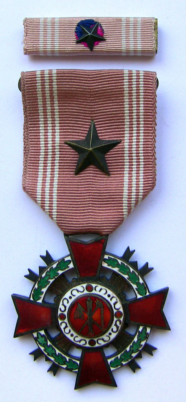 Order of Military Merit, Eulji (also spelt 'Ulchi') Medal (Second Class) with Silver Star (South Korea) (1950-1963 design)